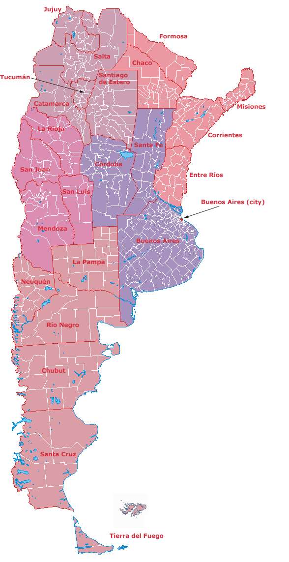 Map of Argentina and its districts.